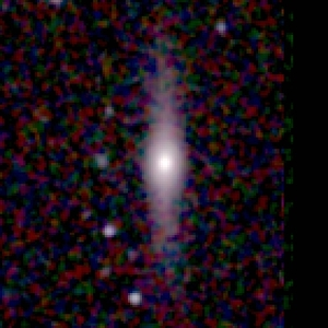 Galaxy NGC 407